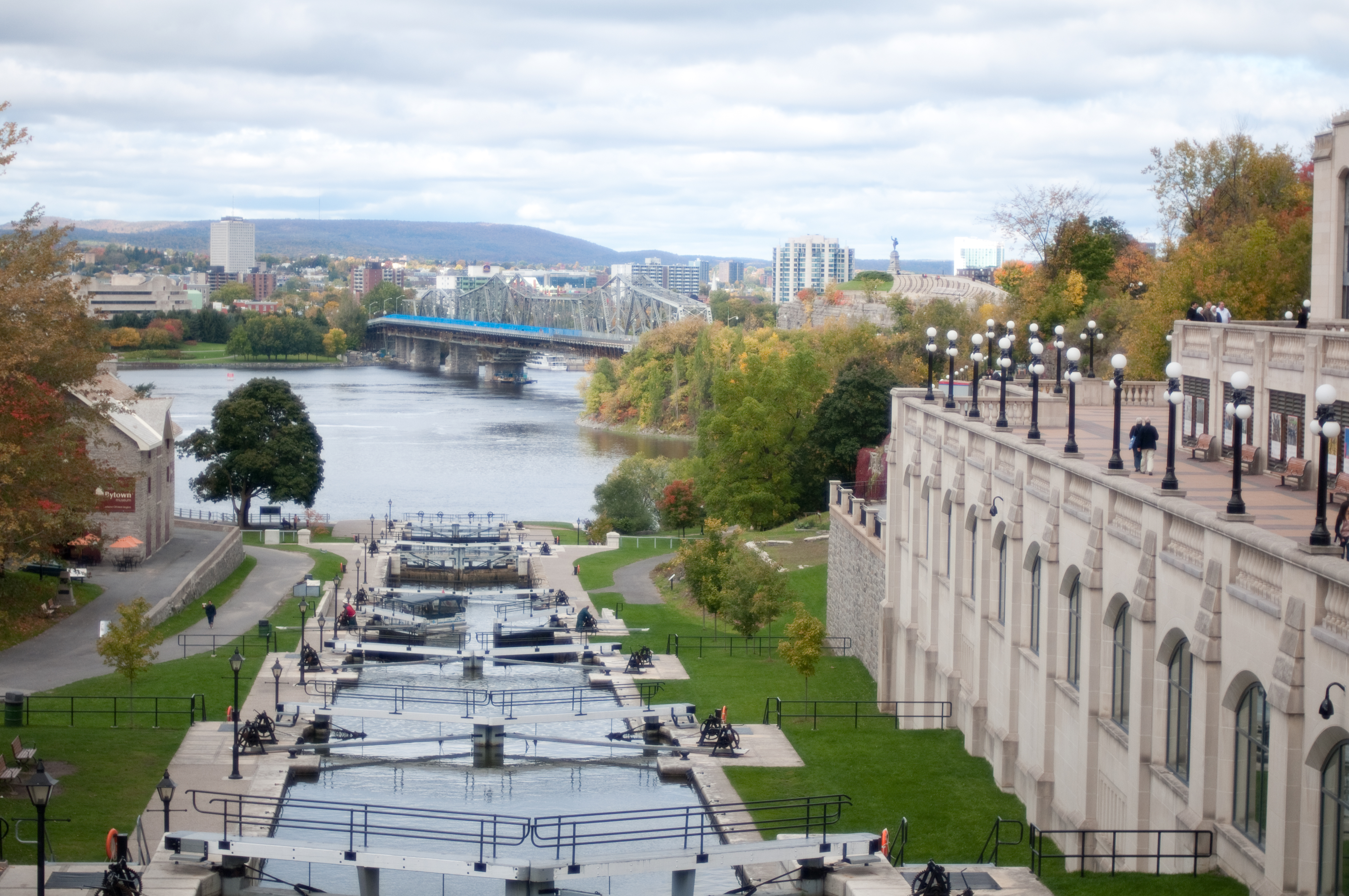 The lock between Chateau Laurier and Parliament Hill in Canada's capital city, Ottawa, Canada, situated on the Ottawa River.